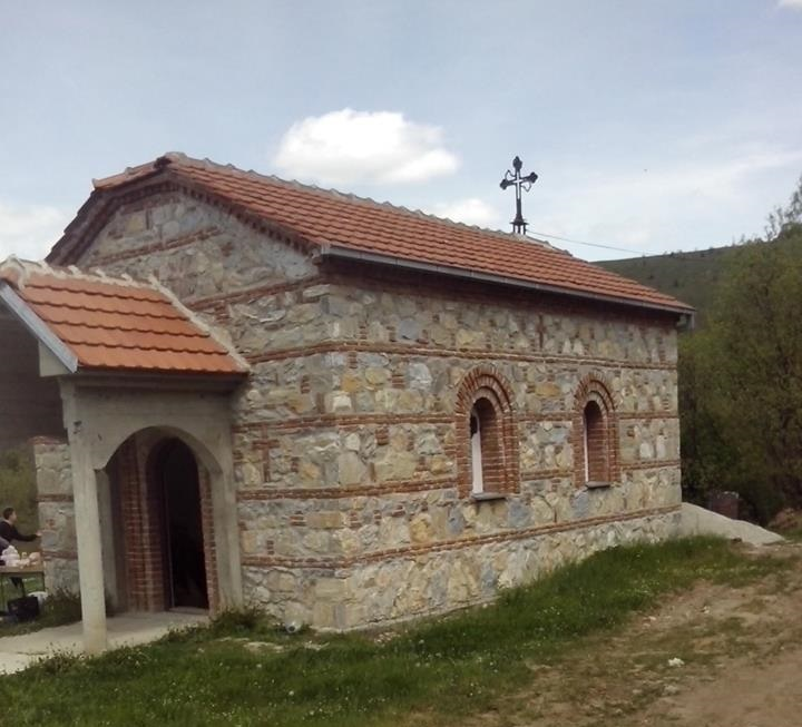 Sts. Constantine and Helena Church in Vardino, Macedonia